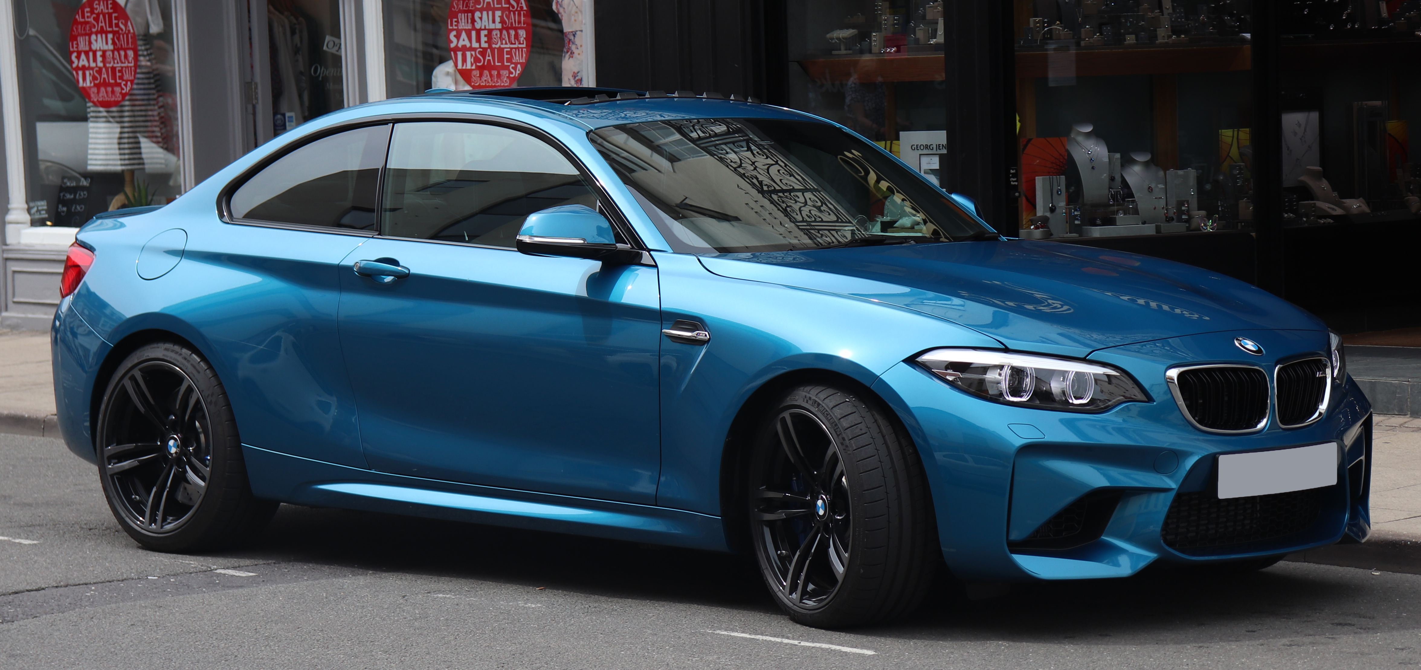 2018 BMW M2 Automatic 3.0 Taken in Leamington Spa